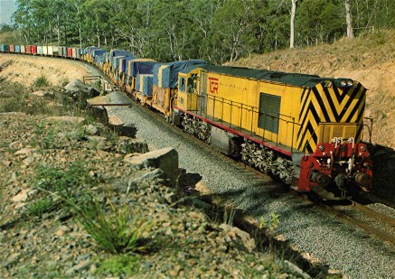 Tasmanian Railways ZA Class locomotive hauling container train on the Bell Bay line